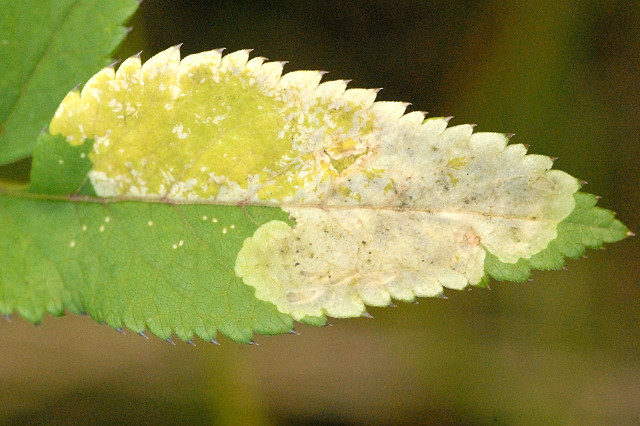 Plasmopara nivea from Commanster, Belgian High Ardennes .